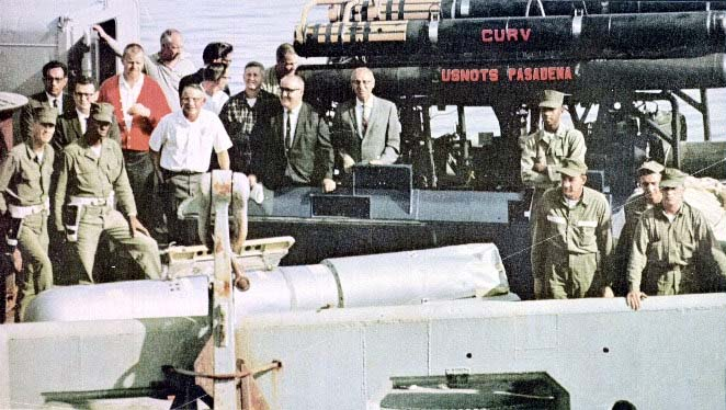 Aboard USS Petrel off the coast of Spain, 1966; NOTS crew after successful recovery of "Robert" the H-Bomb (foreground,behind anchor), with Cable-controlled Undersea Recovery Vehicle (CURV) in the background (magazine photo).